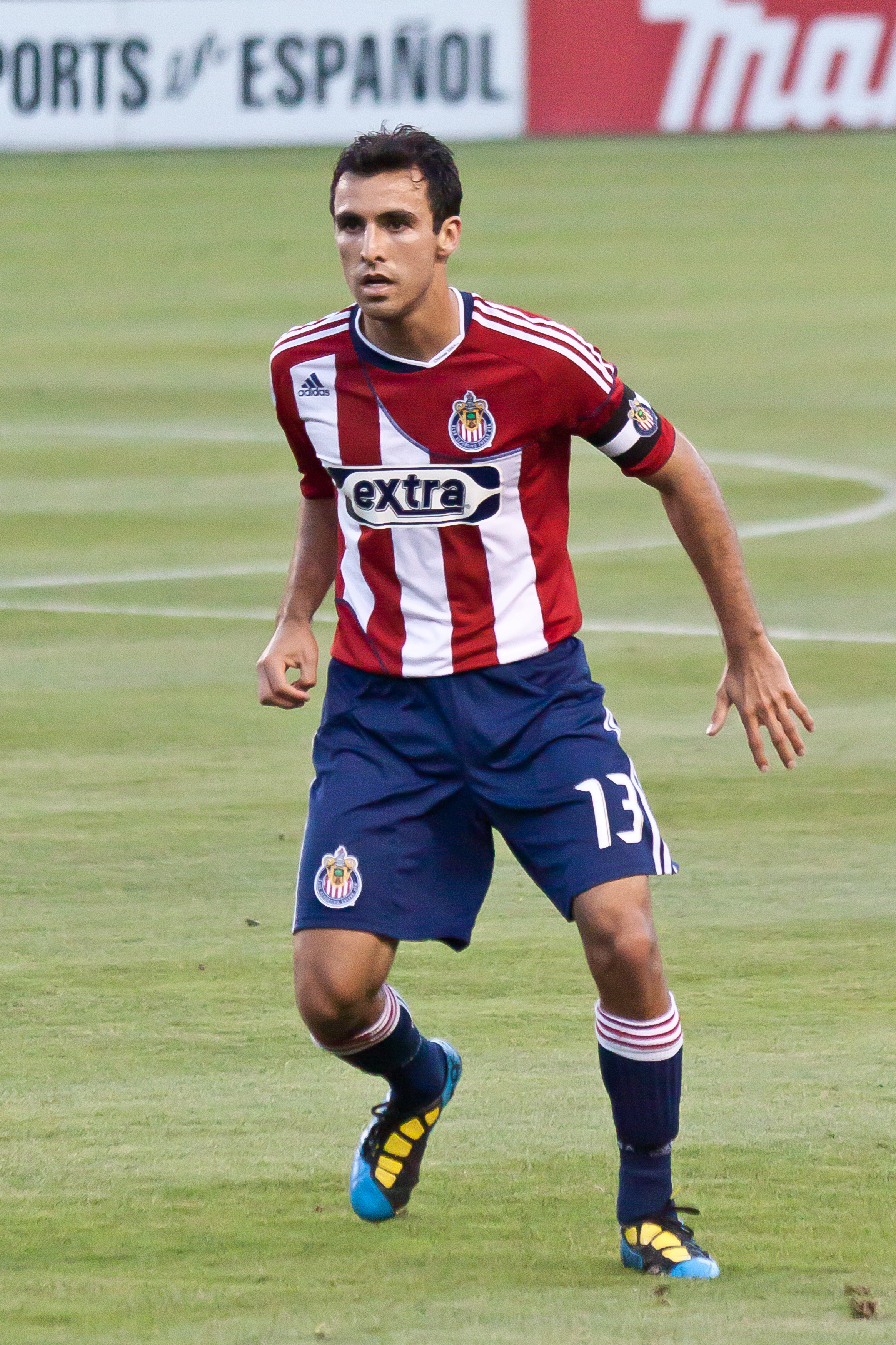 Jonathan Bornstein plays a competitive match for Chivas USA.